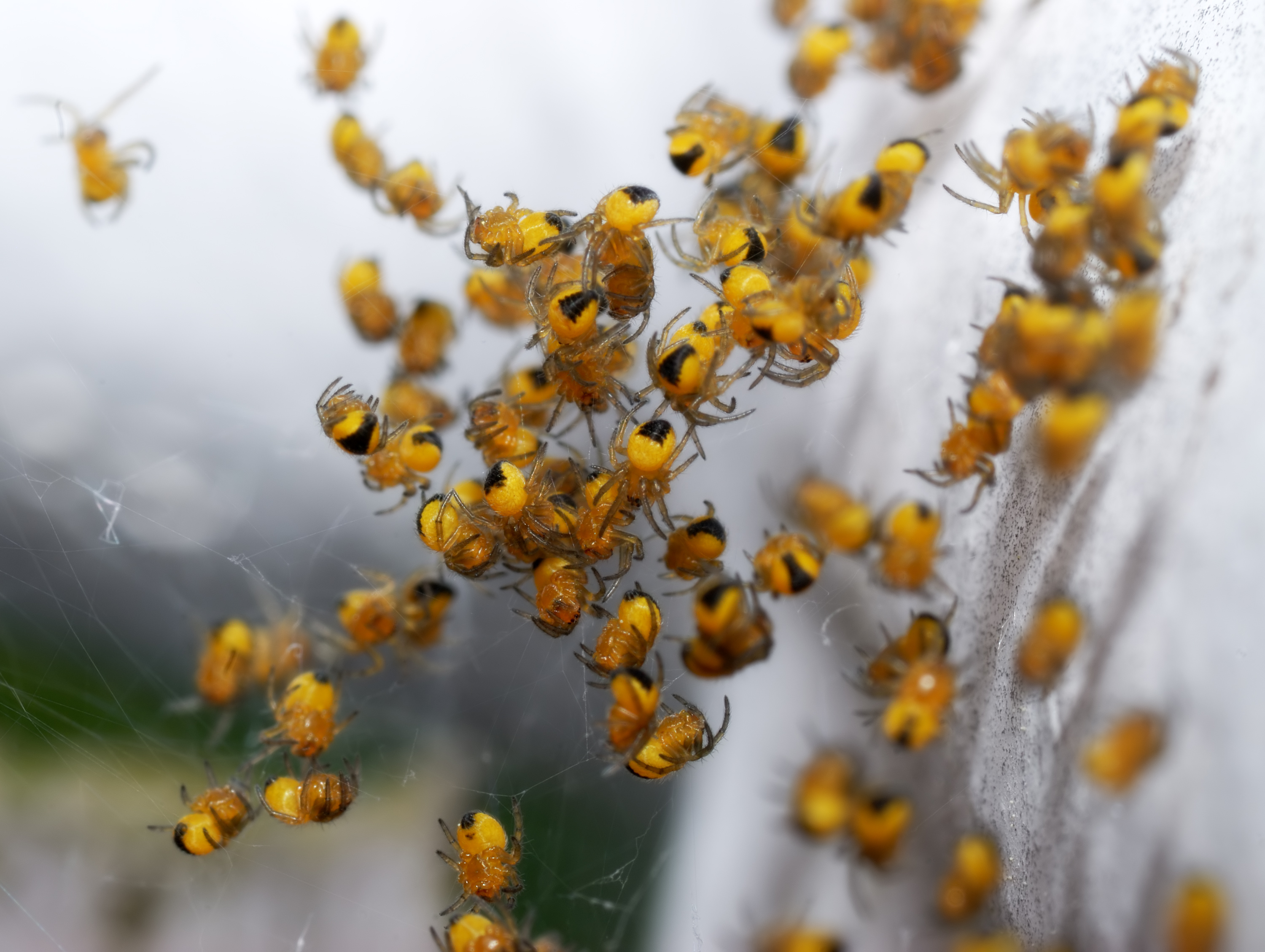 This image shows young European garden spiders (Araneus diadematus). Each spider has a size of about 1 mm.